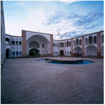 birjandu